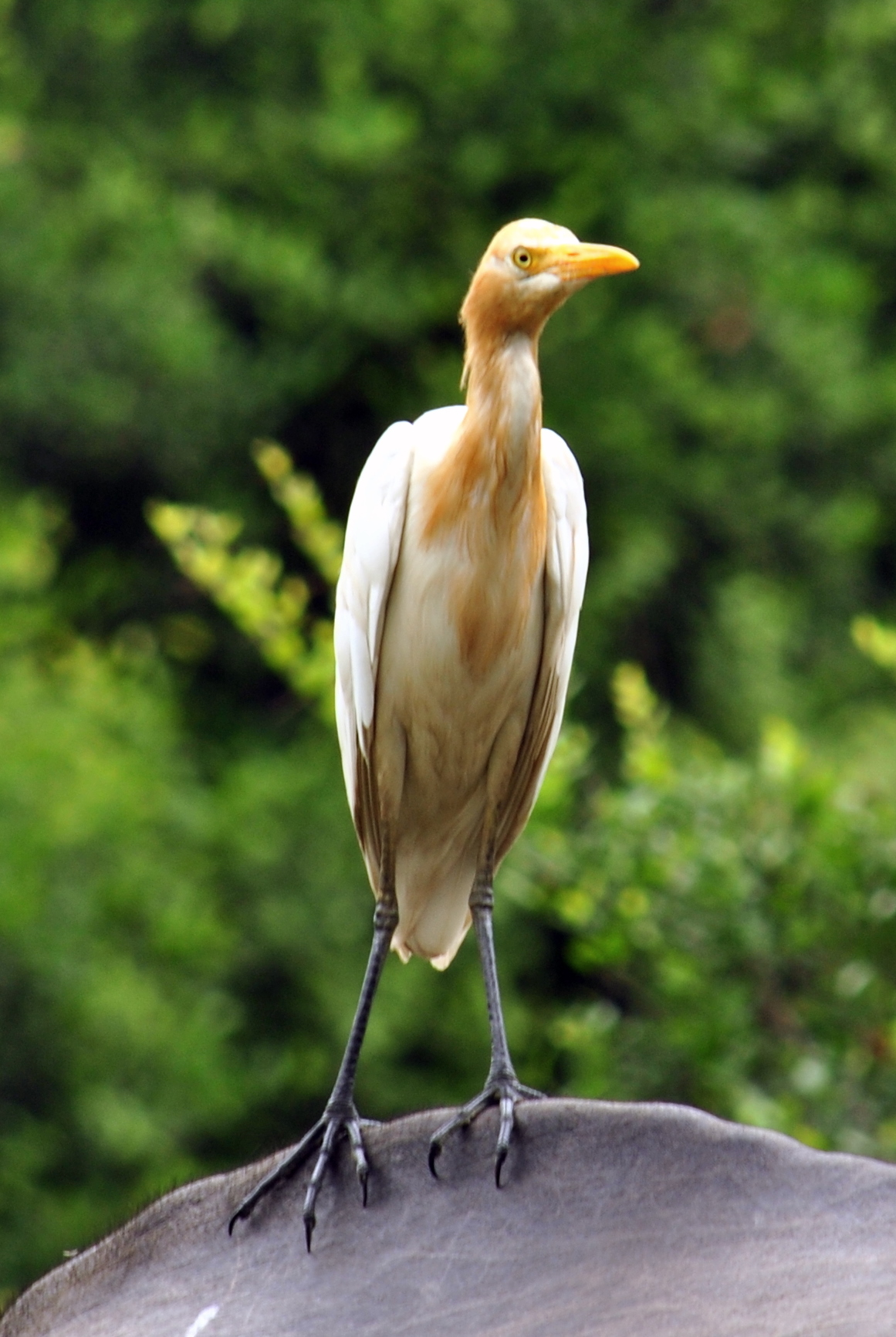 An Eastern Cattle Egret hitching a ride on a buffalo in Asola Wildlife Sanctuary, Haryana, India